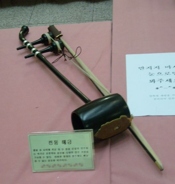 A haegeum, a traditional Korean musical instrument, at an exhibit at Busan Station, Busan, South Korea